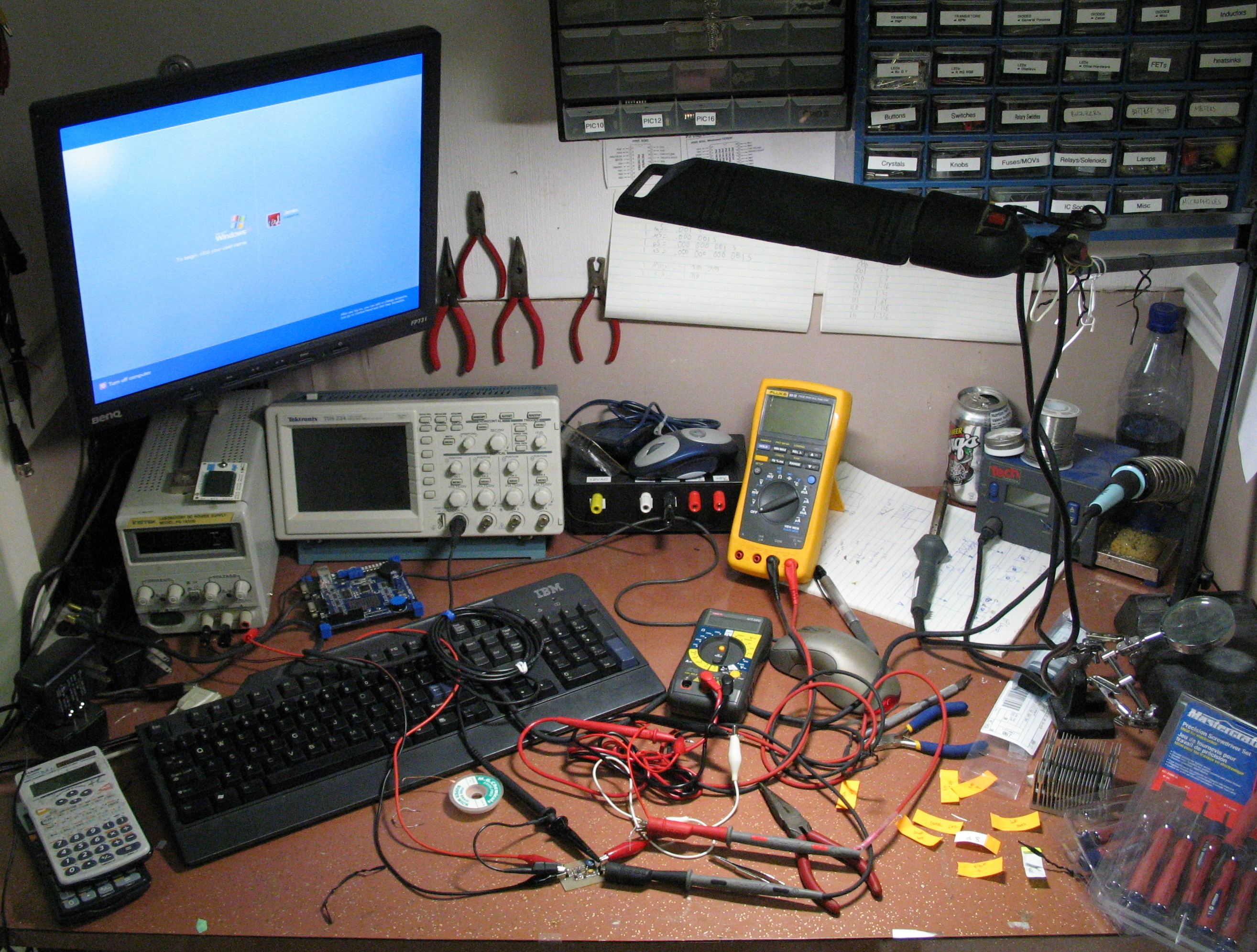 A work in progress My electronics workbench I have little space